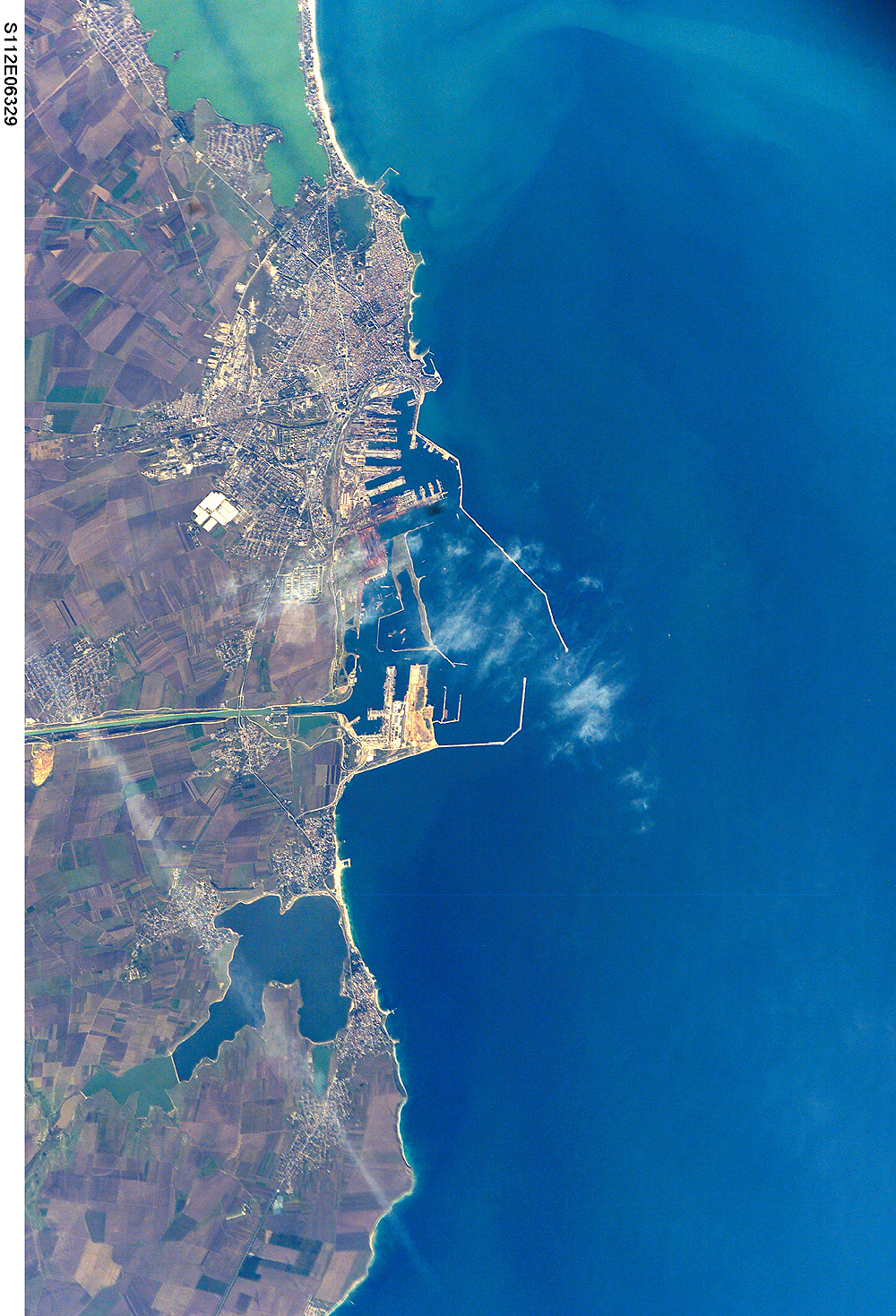 Constanța, Romania The modern city of Constanta, with a population of more than 348,000, is located on the western coast of the Black Sea and is the principal seaport for Romania. It is the site of the ancient Greek city of Tomis, colonized in the 6th century B.C. In the 1st century A.D. Tomis became a flourishing provincial capital of the Roman Empire when it acquired its current name from the emperor Constantine I. Today, Constanta is a thriving port-of-entry for Romania, offering both tourist attractions and an expanding, modern port facility that is among the largest on the Black Sea. The crew of STS-112 acquired this detailed digital image of the city on October 17, 2002, using a 400-mm lens. The older part of the city is situated near the large coastal lagoon to the north, while to the south the port facilities are connected to the Danube River’s import shipping commerce via the 64-km Danube – Black Sea Canal. Agricultural fields of mostly wheat and barley extend almost to the shorelines.